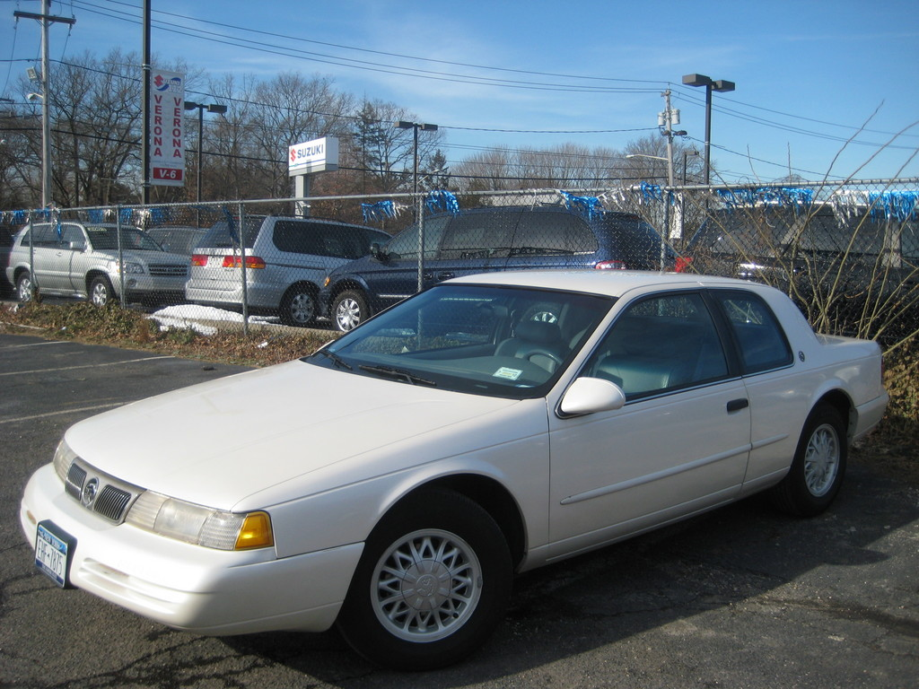 1995 Mercury Cougar XR7